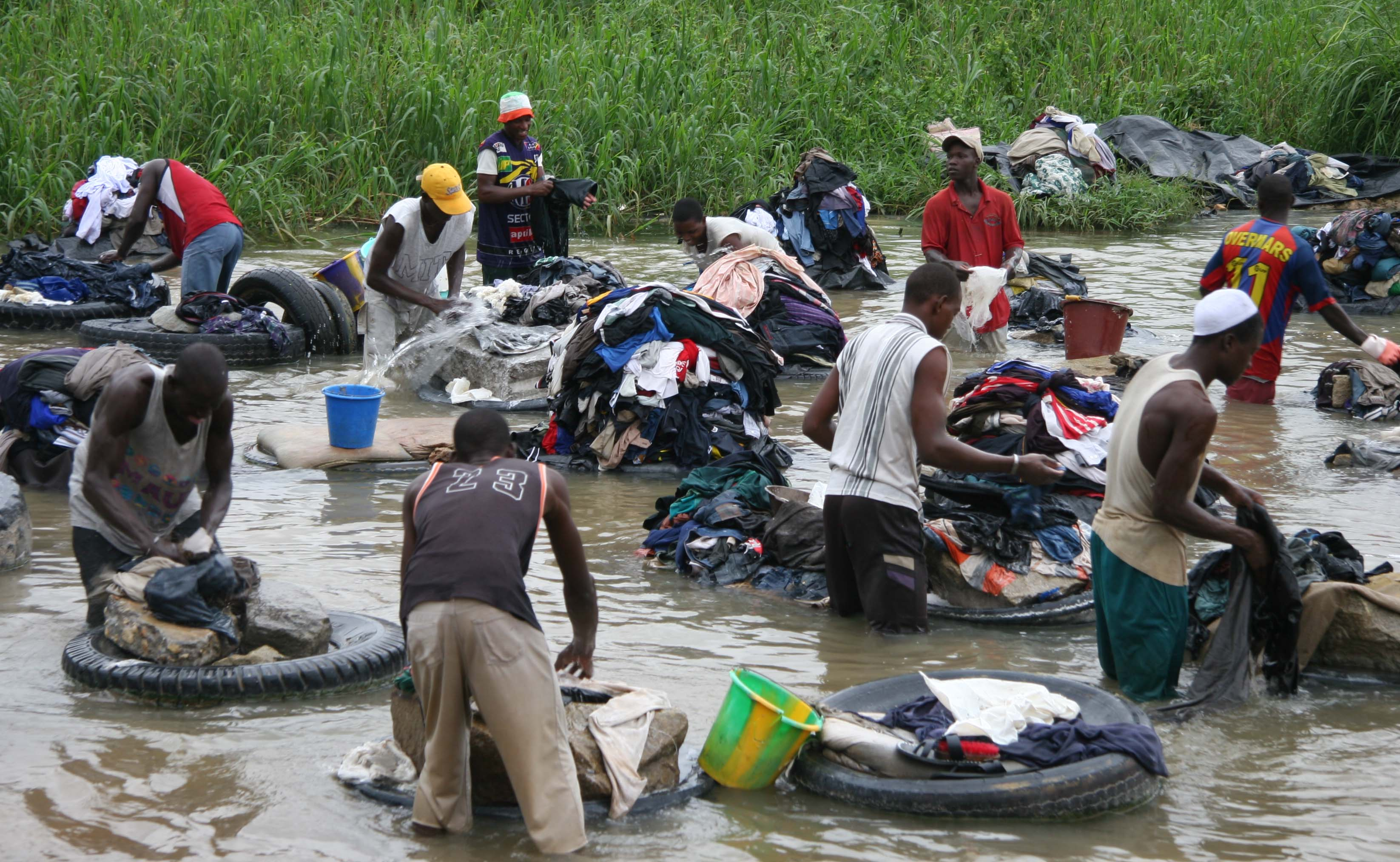 Laundry in the river in Abidjan, Ivory Coast.